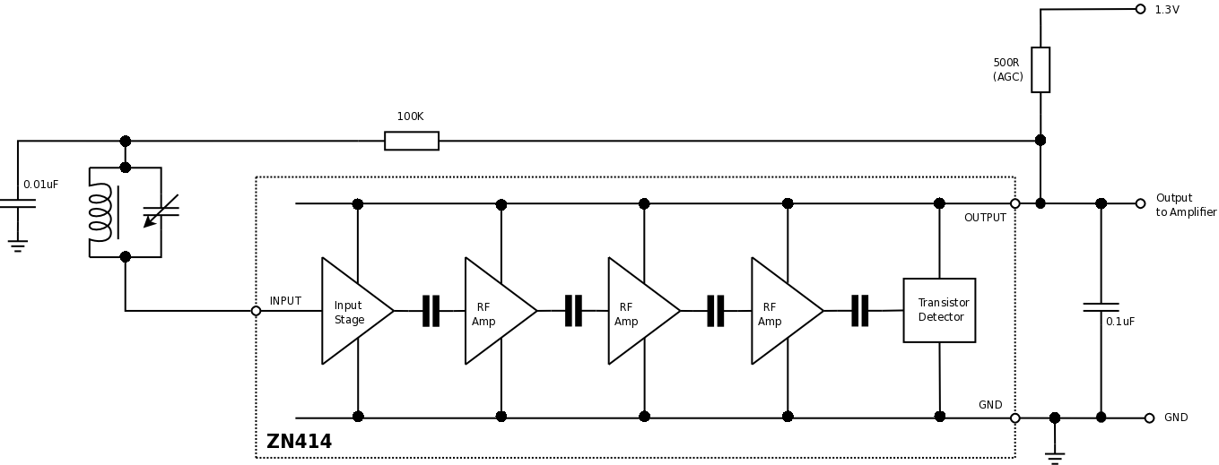 A basic circuit using the ZN414 AM detector transister